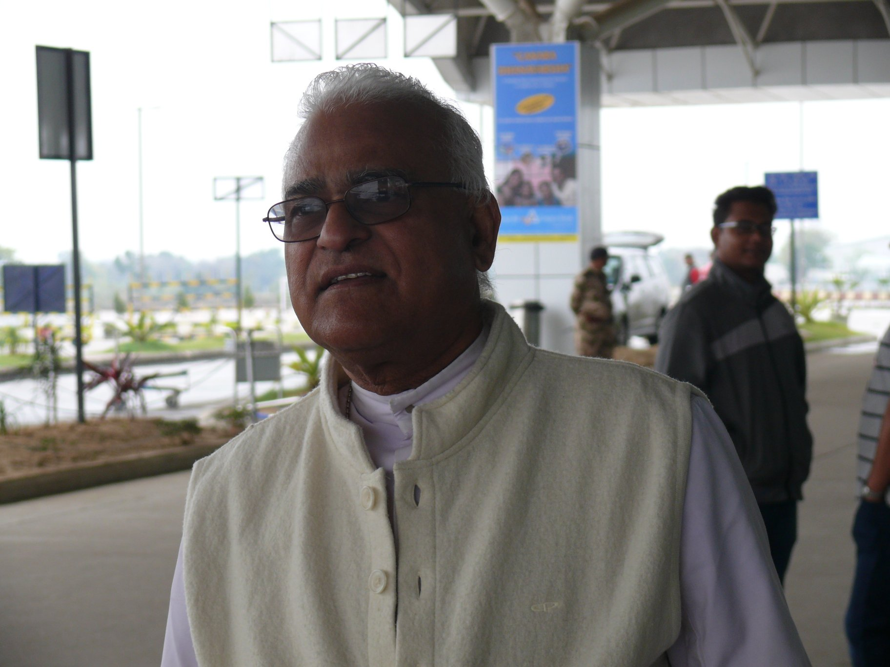 Albert D'Souza, bishop of Agra (Uttar Pradesh, India).